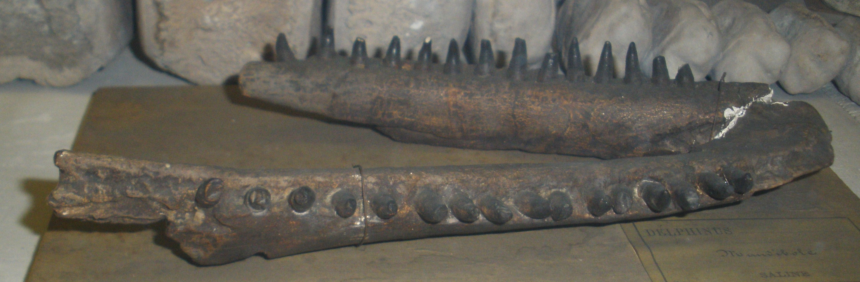 Fossil of Globicephala etruriae, a fossil dolphin